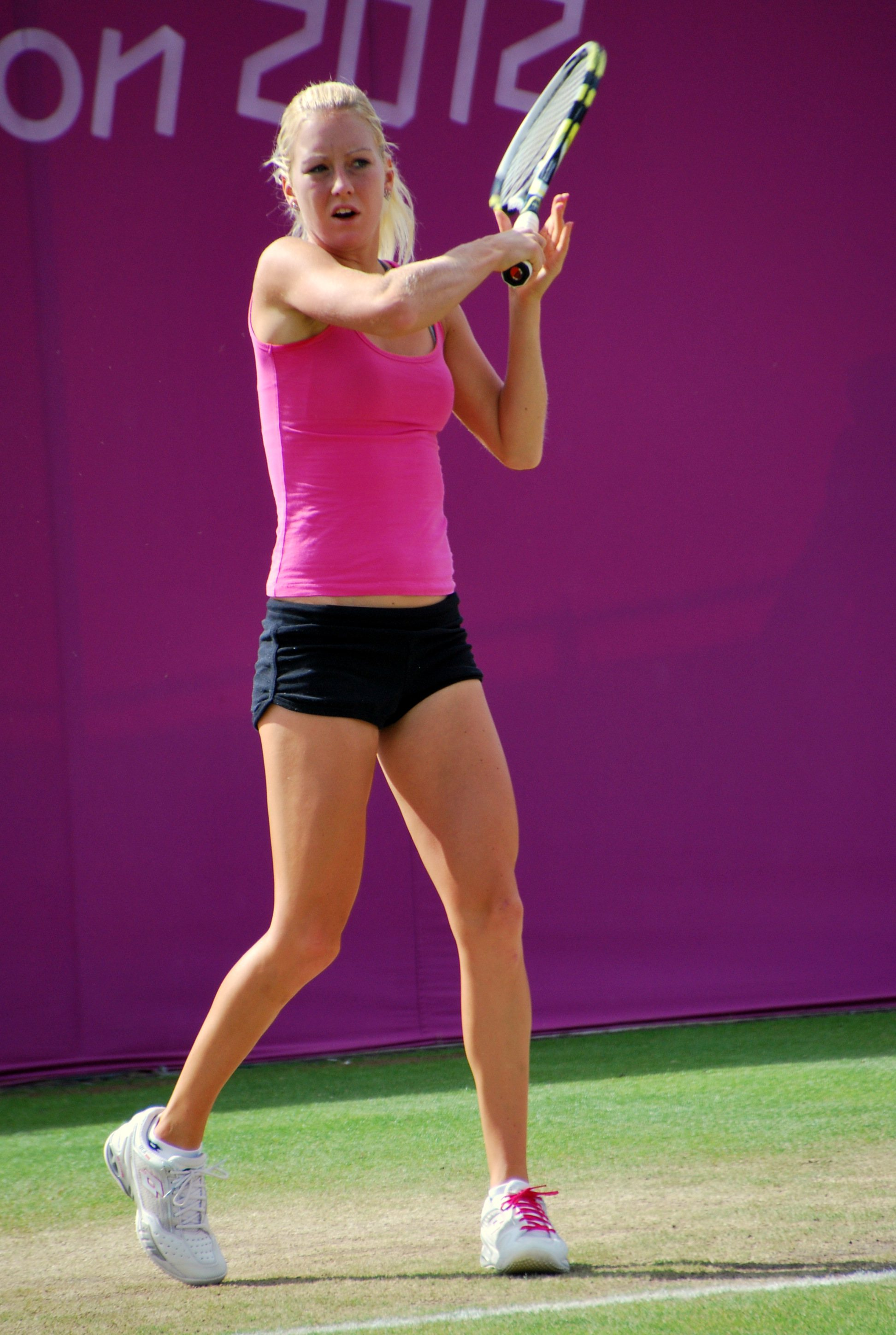 Practising with sister & doubles partner Agnieszka.